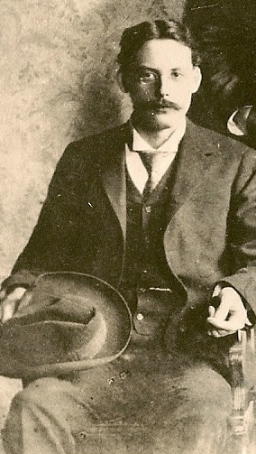 Edwin Arlington Robinson, poet